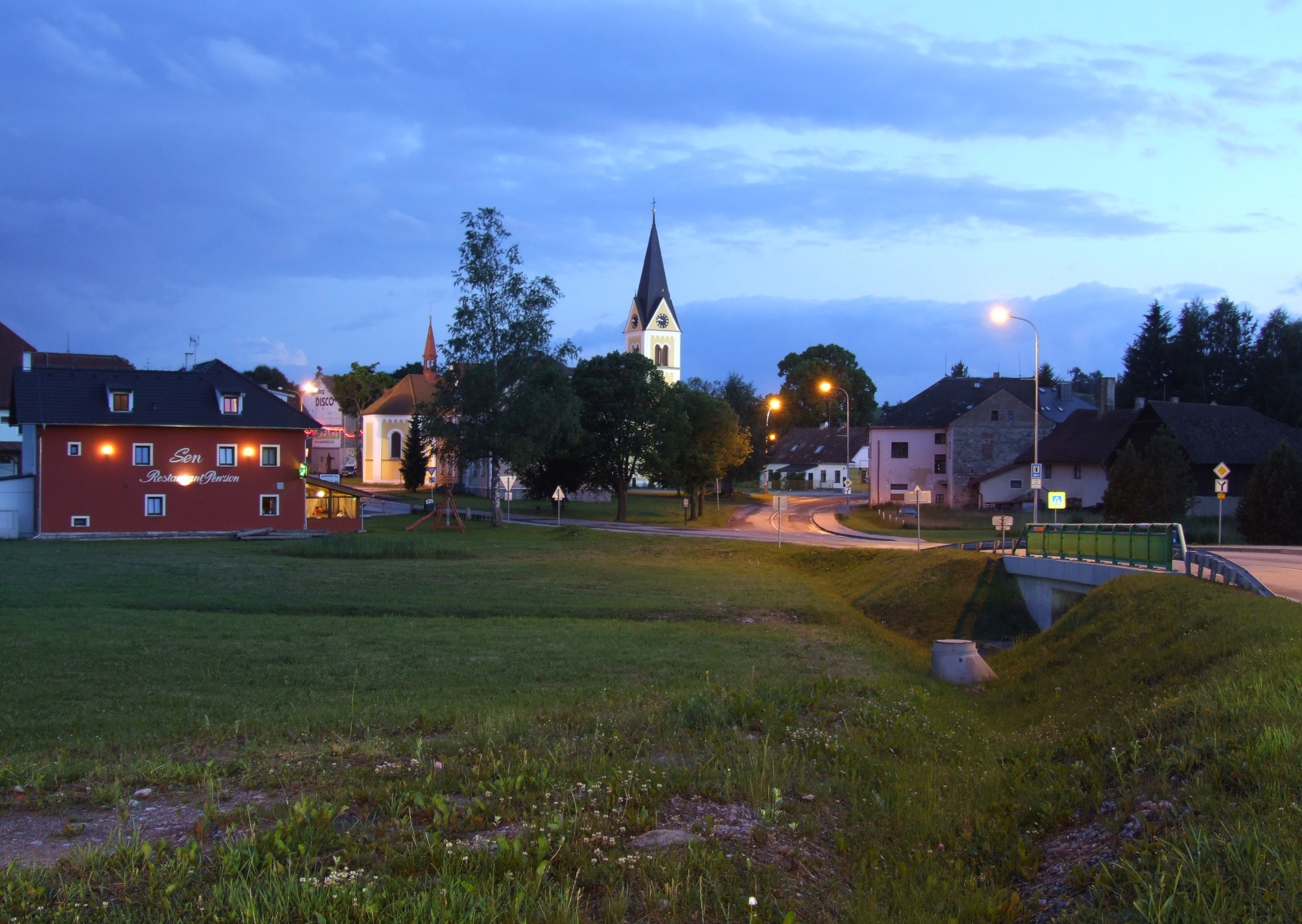 Černá v Pošumaví (Schwarzbach) by night